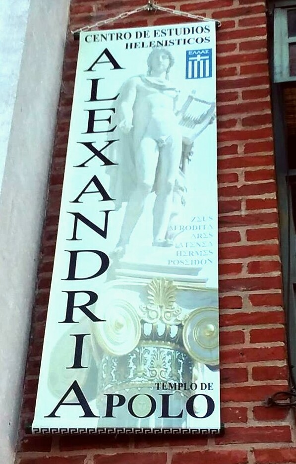 Alexandria Argentina, helenistic center Eλληνισμός/Hellenism/Helenismo/Hellenisme